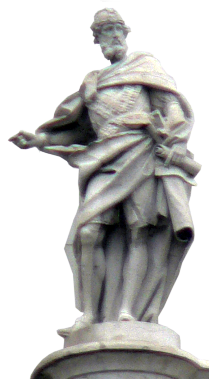 Theodomir or Theodomar (559-570), was one of the last Suevic Kings of Galicia. He has his statue in the West facade of the Royal Palace of Madrid.